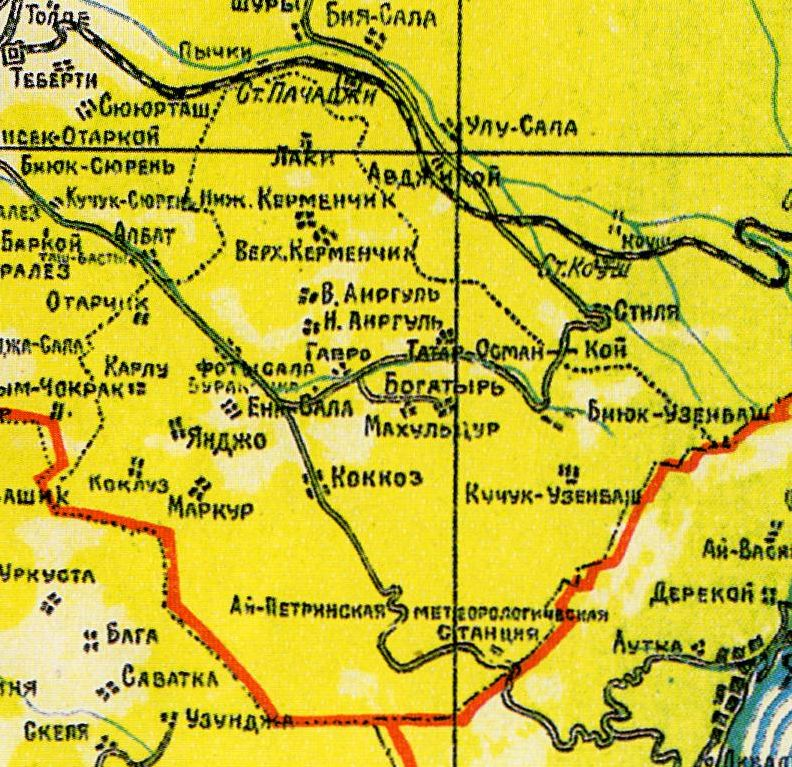 Kokkozskiy raion, Crimea, 1922